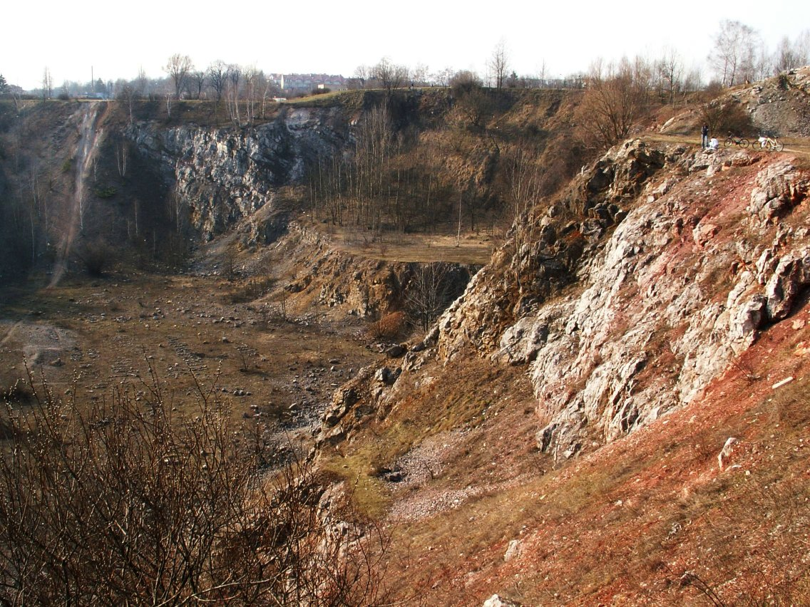 Old quarry Wietrznia in Kielce (Poland)